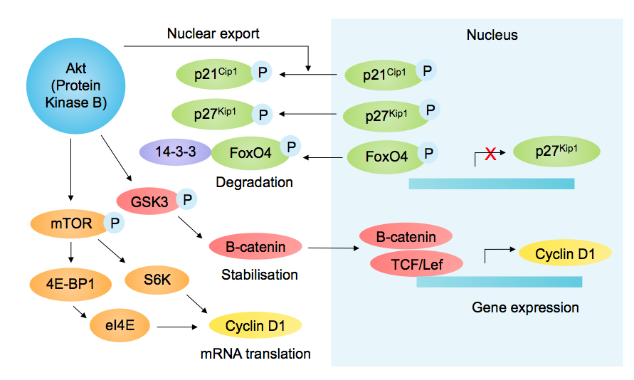 Akt (Protein Kinase B) substrates involved in cell cycle progression. Akt promotes increase in Cyclin D1 transcription and translation, and the export of cyclin-dependent kinase inhibitors p21 and p27.